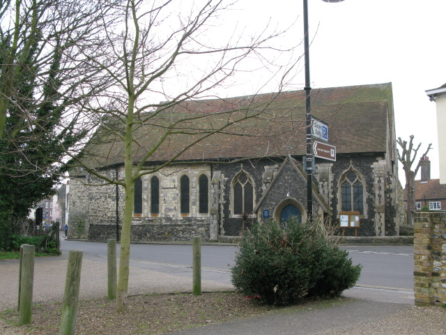 St Mary's church, Sandwich St. Mary's is the oldest church site in the Ancient Cinque Port of Sandwich and it remains consecrated. More information here